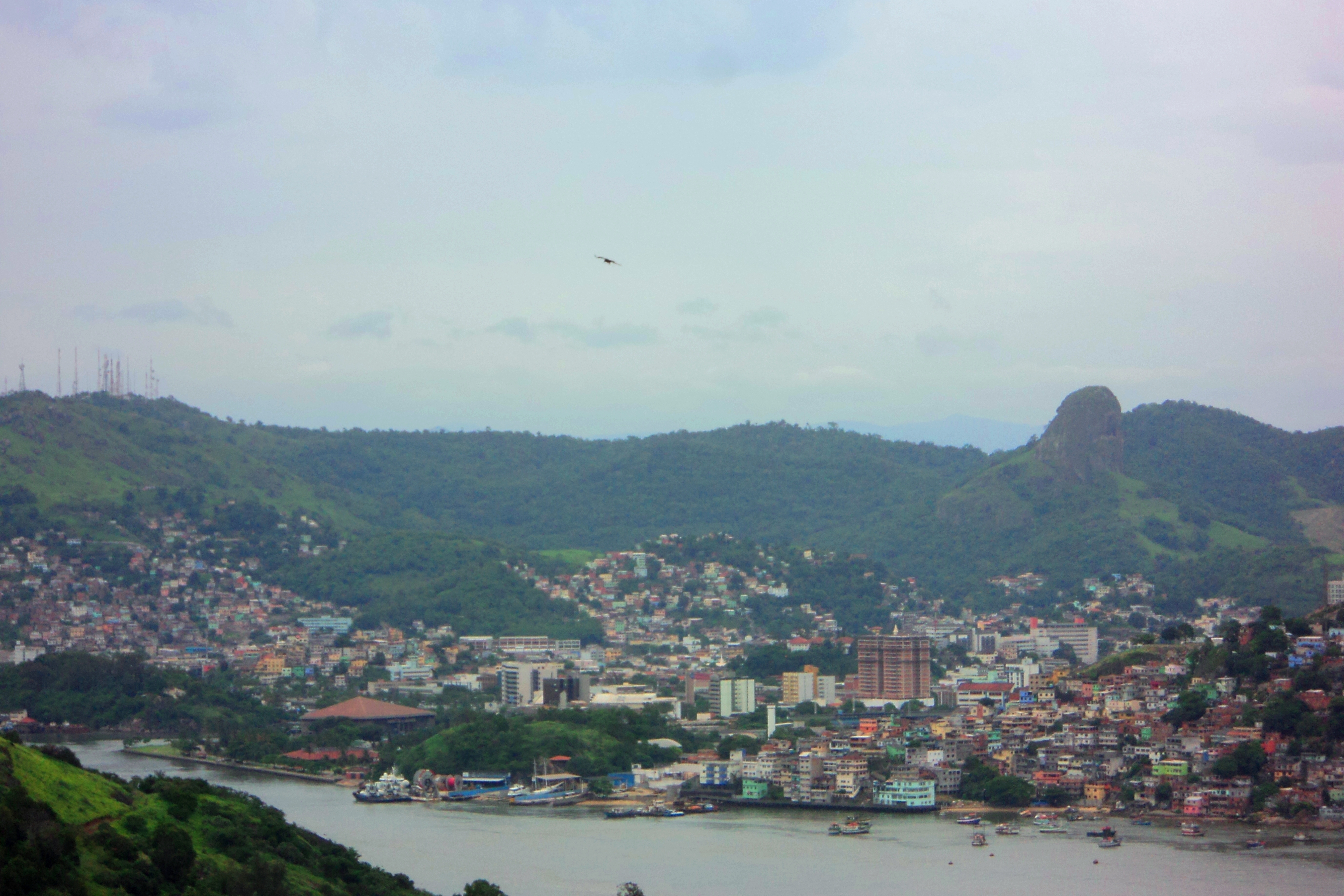 Slums in Vitória, Espírito Santo, Brazil.